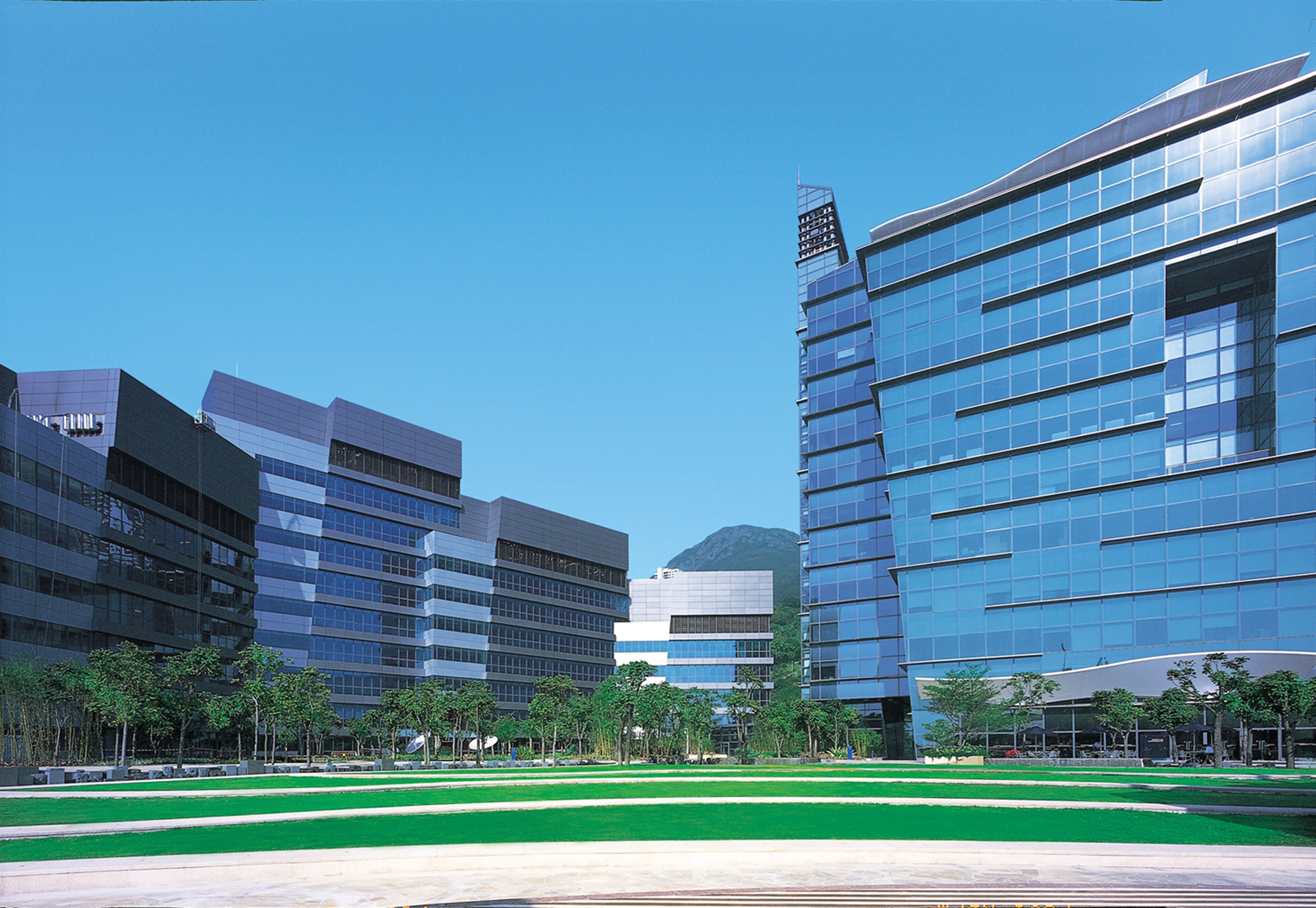 Cyberport 1 and Cyberport 2